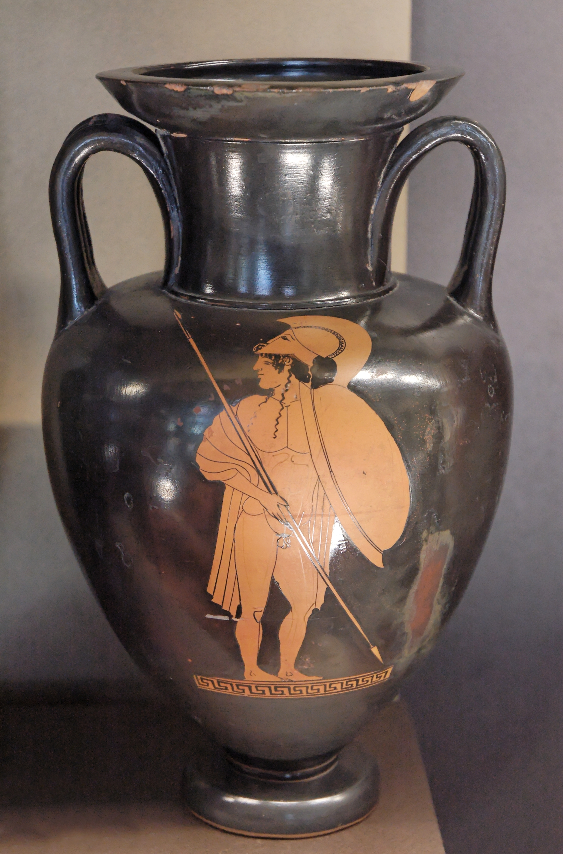 Antilochus. Side A from an Attic red-figure neck-amphora, ca. 470 BC.